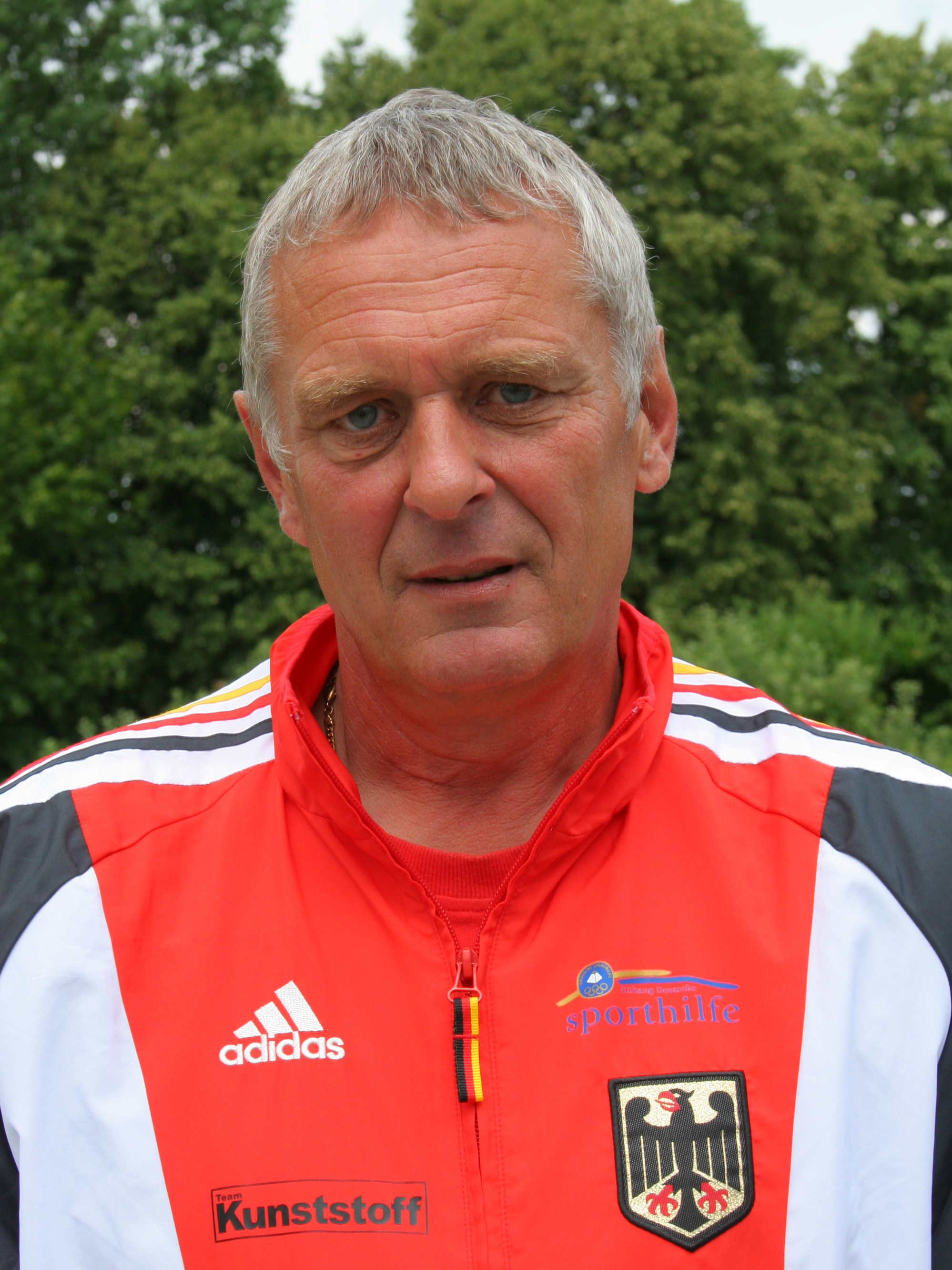 Rold-Dieter Amend, German Canoe-Coach